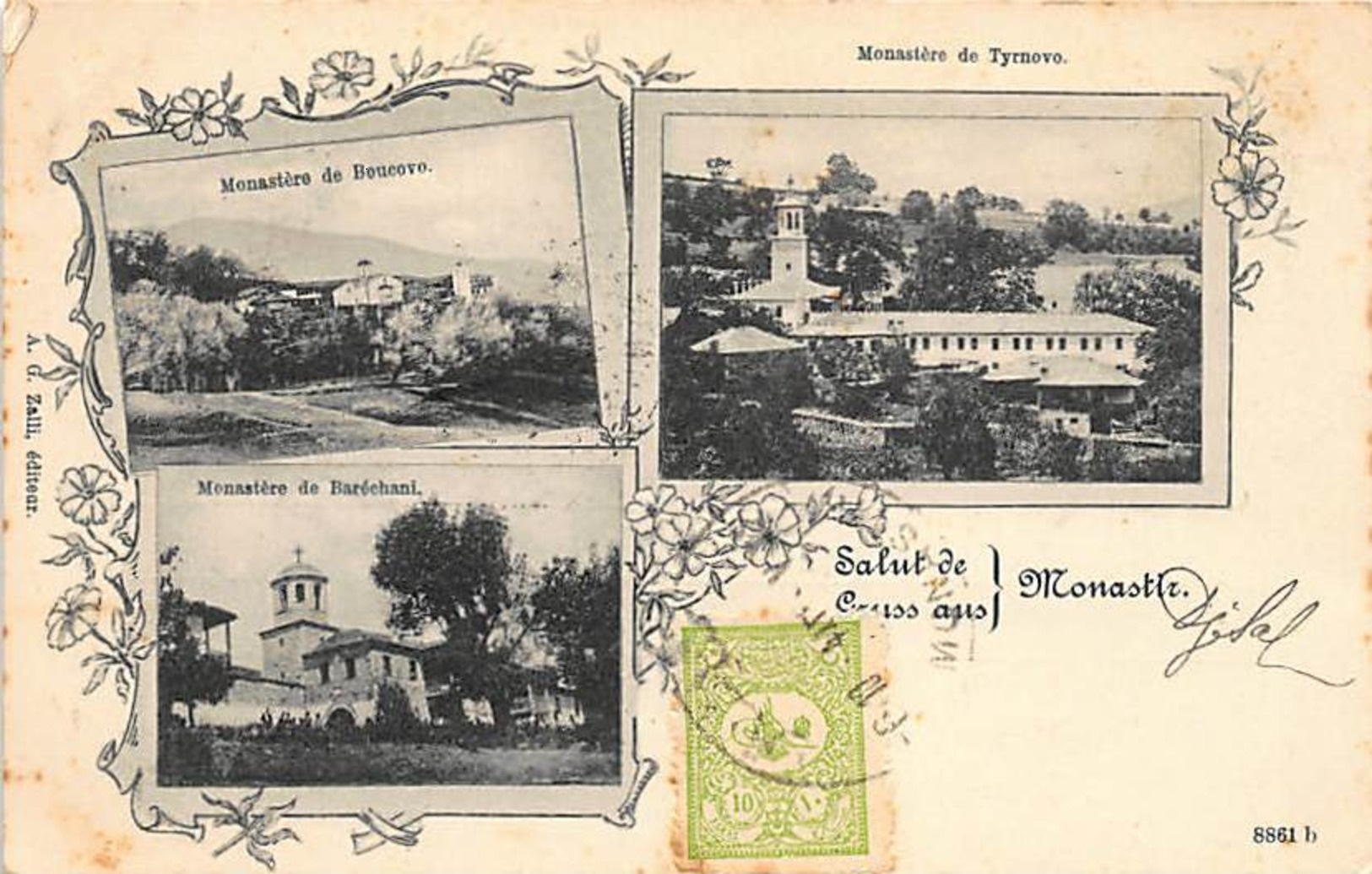 Postcard showing the Bukovo Monastery, Barešani Monastery, and Trnovo Monastery of Monastir, Ottoman Empire (modern day Bitola, North Macedonia)